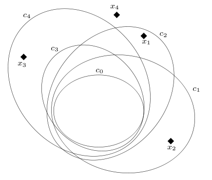 A schematic outlook of outer sentineling functionality: concept c0 sentineled against c1, c2, c3, c4 through {x1, x2, x3}. x1 and x3 are used as its own sentry points also by c1, and x2 prevents c1 to invade c0; x2 and x3 are sentry points also of c2, and x1 prevents invasion of c0 by c2; and x1 and x2 are sentry points also of c4 and x3 prevents invasion; c3 does not include c0 ∪ S(c0), hence it cannot invade c0. x4 is a useless point. All marked points are negative examples of c0.